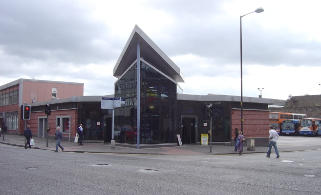 Seagate Bus Station, Dundee, Scotland.